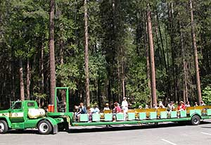 Yosemite park tram in Yosemite National Park photographed by user:Karen Johnson.